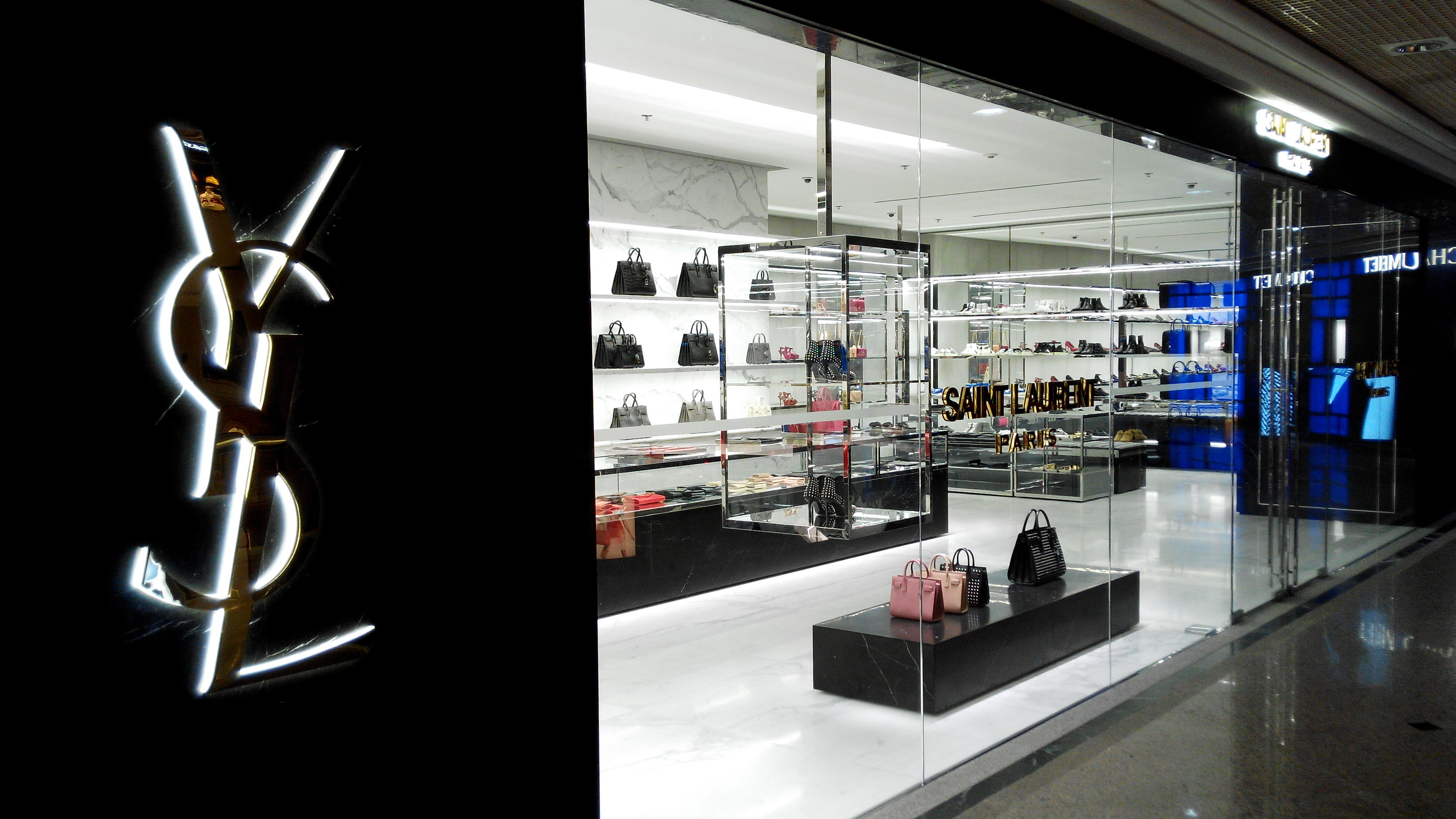 Mall shops in Times Square, Causeway Bay, Hong Kong